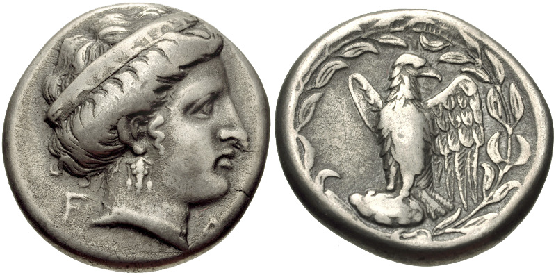 Stater, 336 BC, Olympia. 111th Olympiad